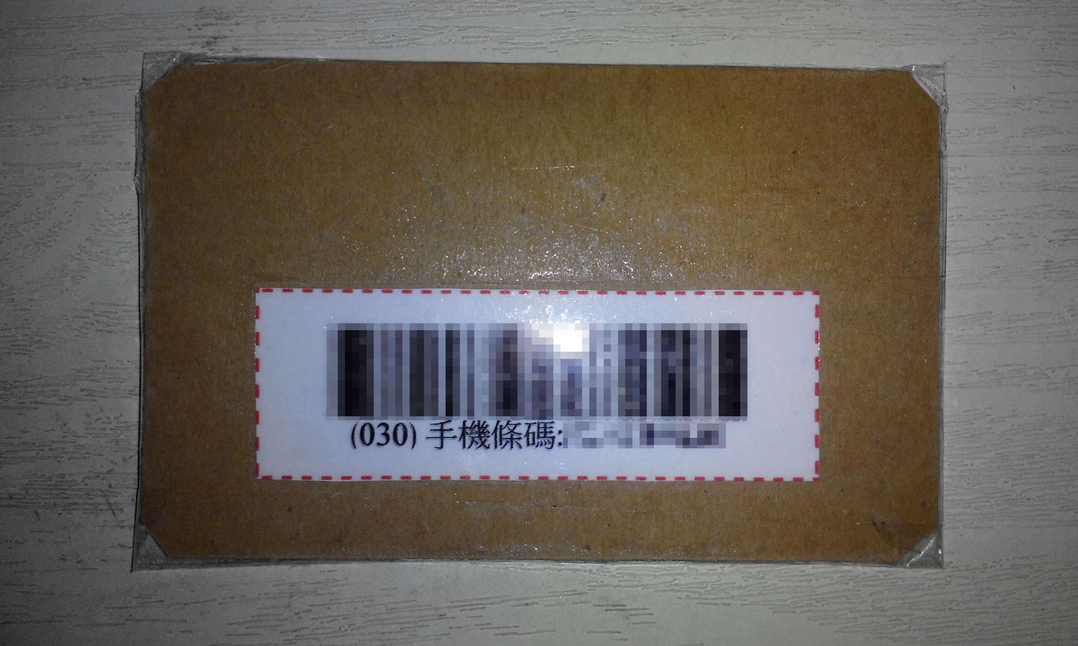 A pixelated General carrier (or Smartphone barcode) in the red dashed line box, it's a part of the Second generation E-Receipt of the Ministry of Finance (Taiwan, R.O.C.). E-Invoice is an incorrect translation from Traditional chinese to English. 中文（台灣）: 在紅色虛線框內經過馬賽克處理的手機條碼，中華民國財政部二代電子發票。中文（中国大陆）: 在红色虚线框内经过马赛克处理的手机条形码，中华民国财政部二代电子发票。